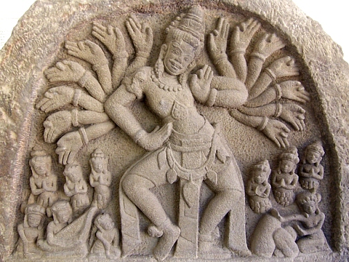 It depicts a 10th century tympanum featuring the dancing Shiva. The tympanum is from Champa, and is transitional between the Dong Duong and Khuong My styles.